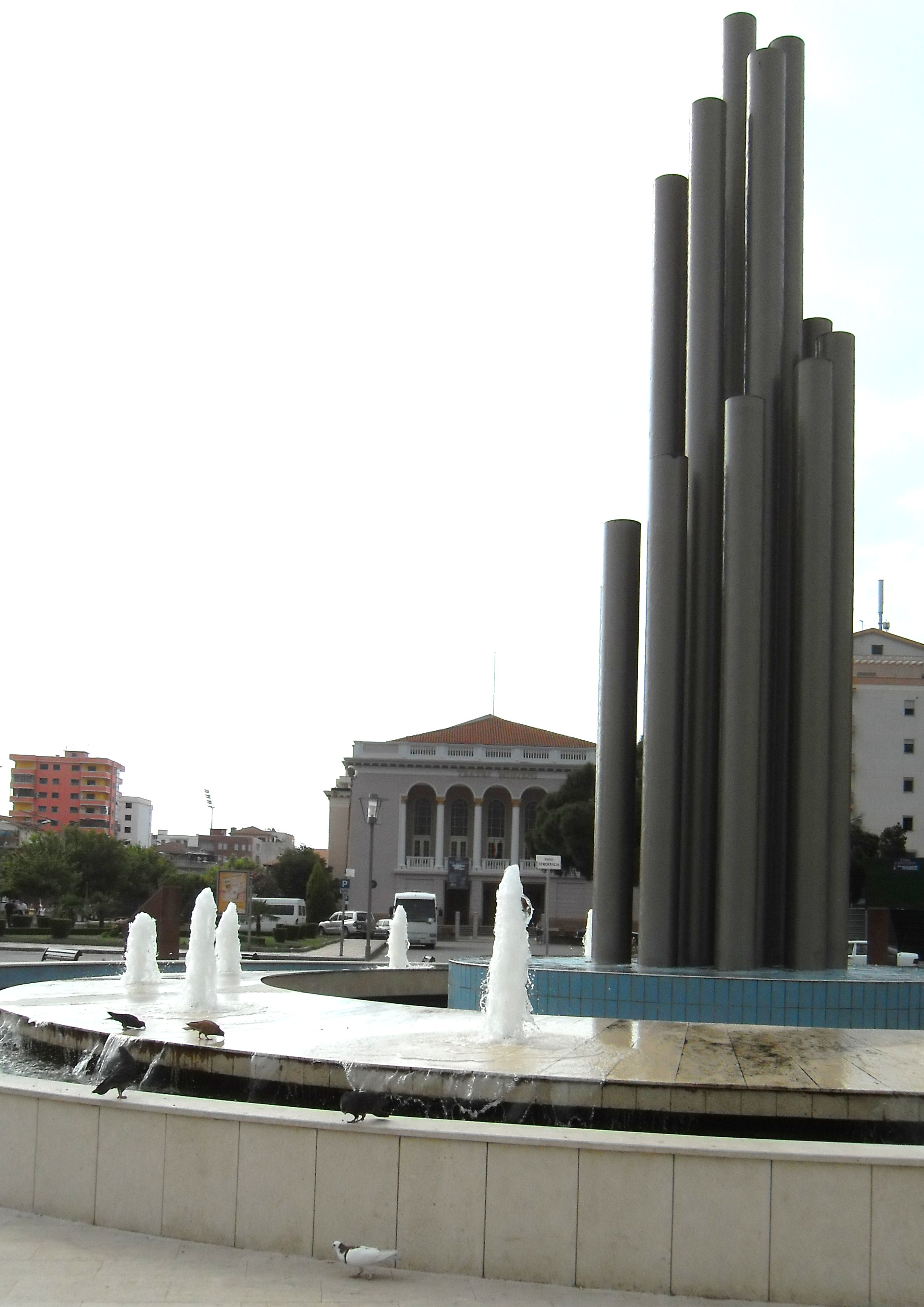 Place of Democracy (alb.: Sheshi Demokracia) in Shkodra; the Migjeni Theatre in the background